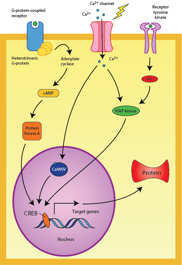 This is a simplified diagram showing generalized molecular pathways that induce long-term changes in neuronal activity via CREB. This diagram focuses on extracellular signals that activate membrane proteins commonly found in neurons. Membrane proteins activate various second messenger and intracellular signaling pathways, which eventually target CREB, promoting transcription and translation of target proteins that change neuronal mechanisms in the long term. The image shows three receptors: G-protein-coupled receptor (GPCR), a calcium channel (such as NMDAR), and a receptor tyrosine kinase channel (TRK). The GPCR acts through a heterotrimeric g-protein to activate adenylate cyclase (AC), increasing intracellular cyclic AMP (cAMP), which acts through phosphorylation cascades and protein kinase A (PKA) to target CREB. The calcium channel increases inctracellular calcium ions (Ca2+), which can act through CaMKIV to target CREB. The TRK can act through ras and MAP kinase to target CREB. CREB promotes transcription and translation of target proteins, and these proteins disperse throughout the neuron to effect long-term changes. The image was made in Adobe Illustrator. This is a png version of the original image, which may be found here